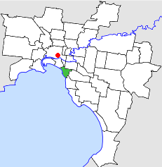 Location of the City of St Kilda within Melbourne.